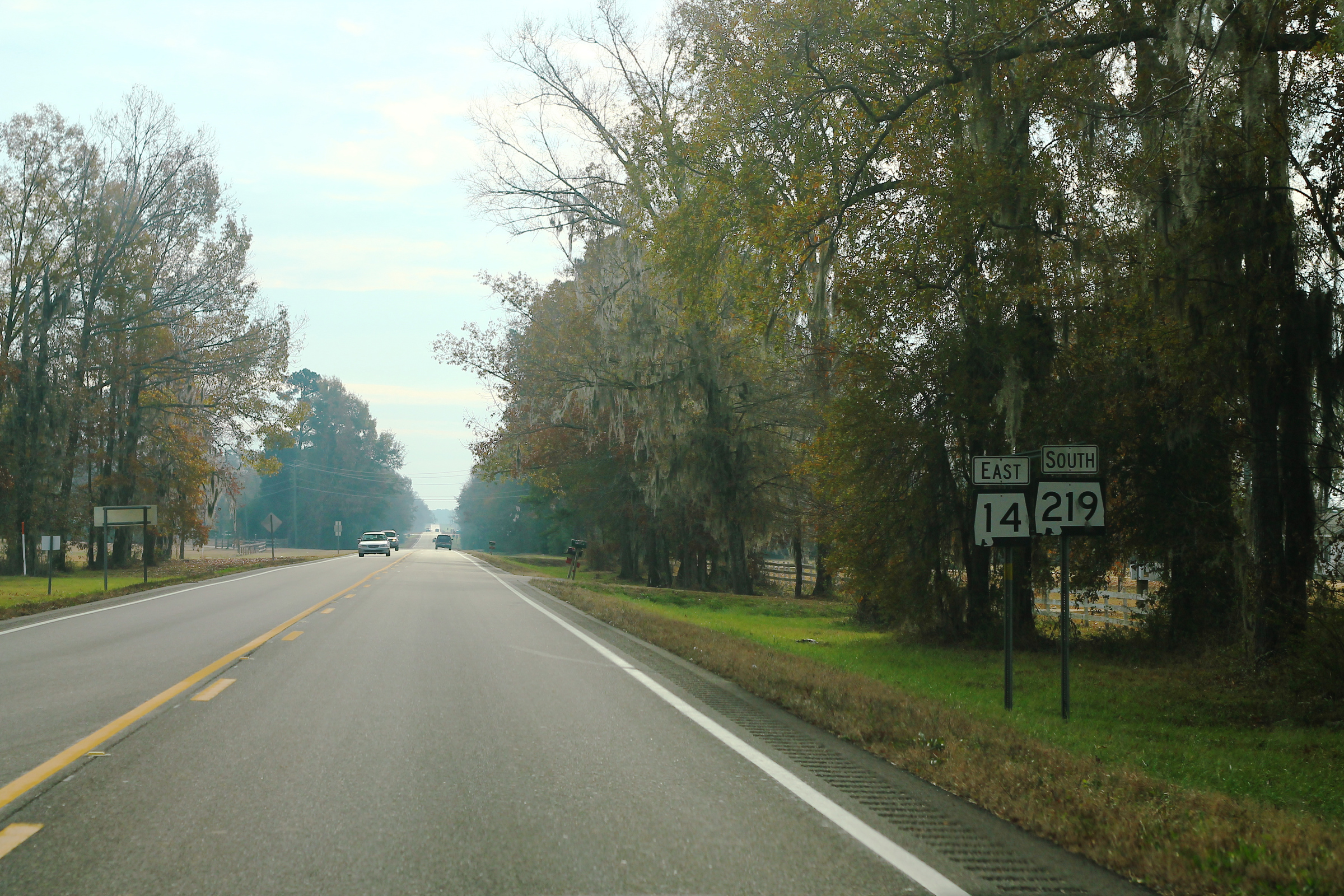 AL219 and AL14 Signs